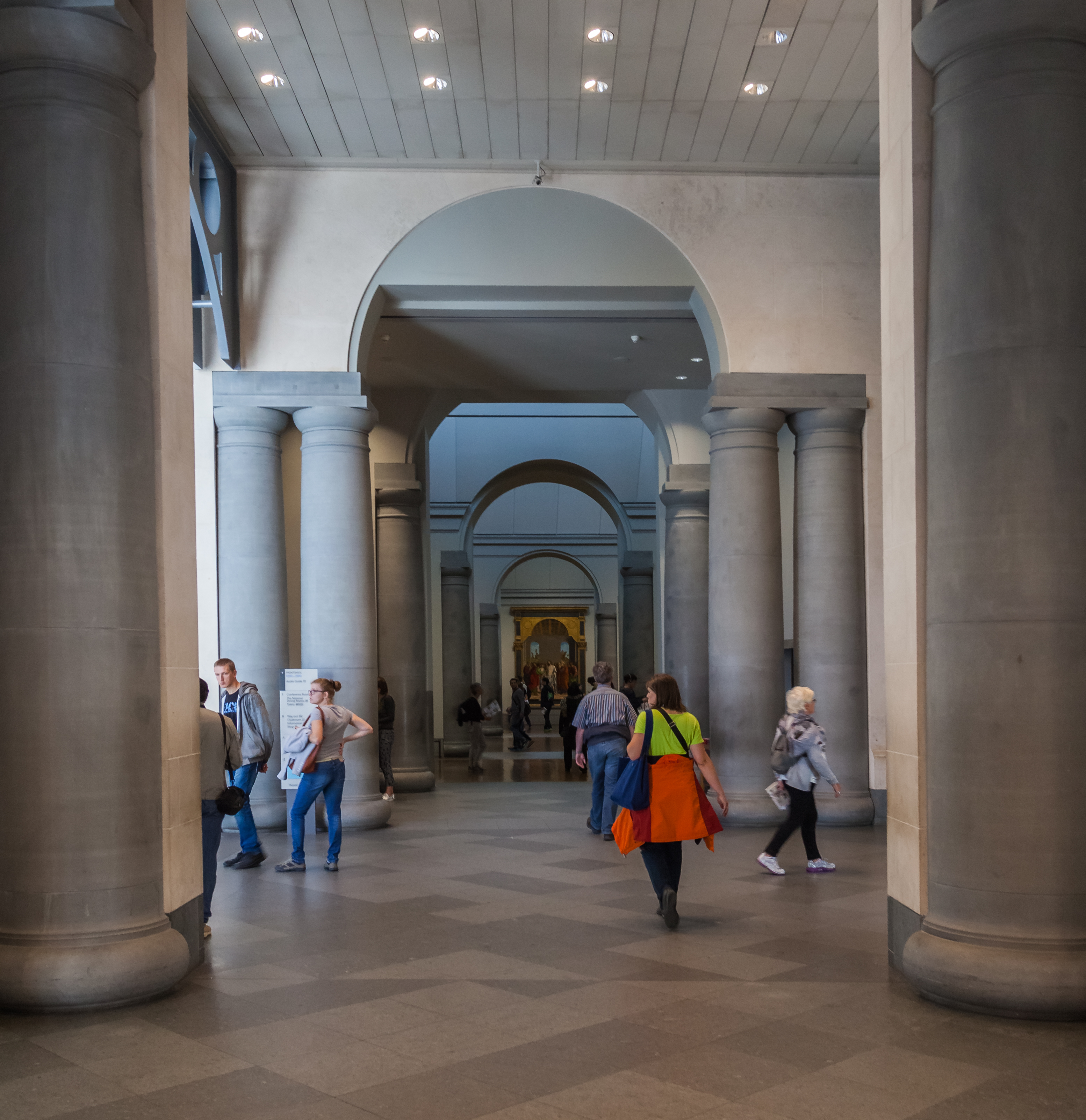 National Gallery, London, England